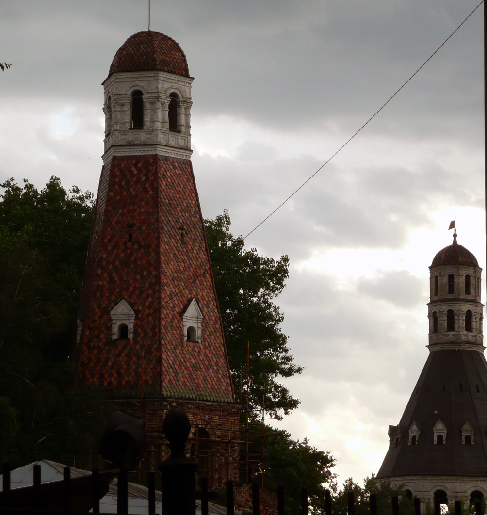 Towers of the Simonov Monastery in Moscow